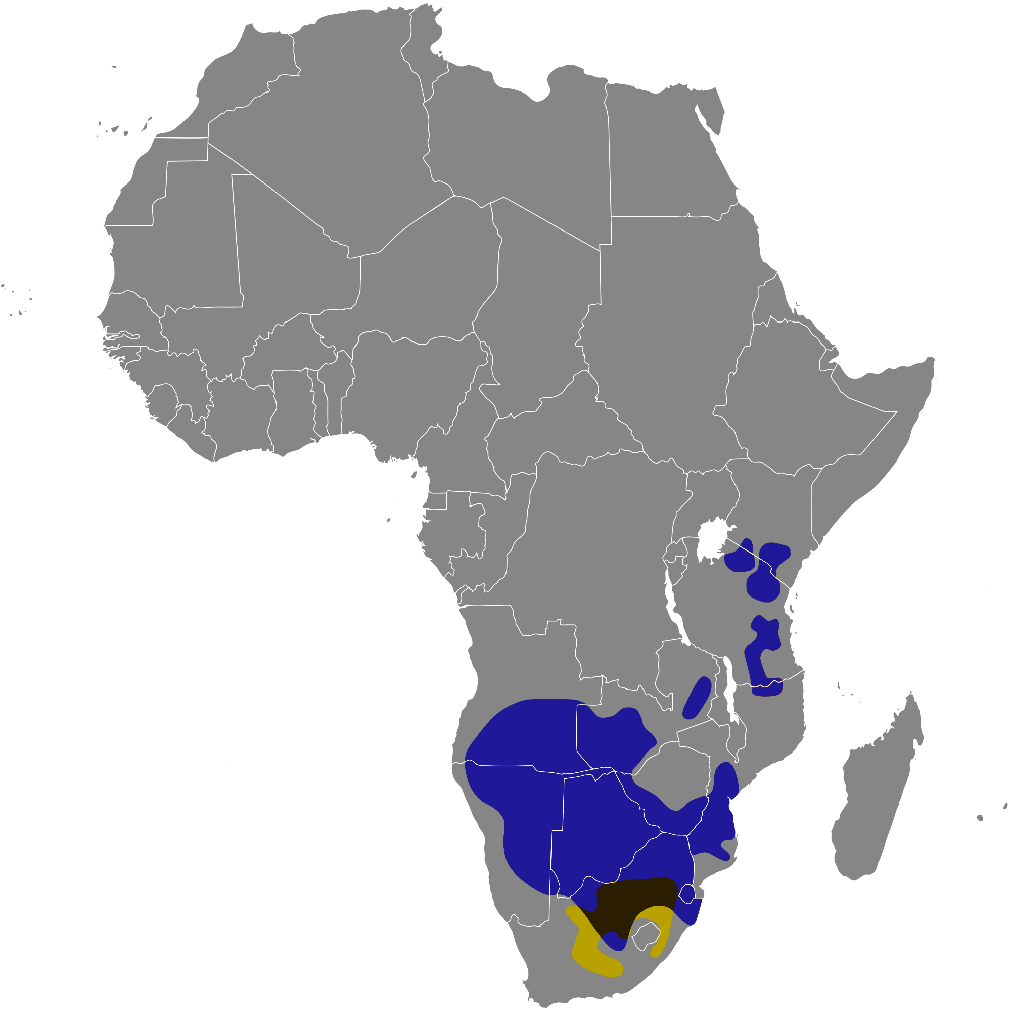 Approximate distribution of Wildebeest. Black wildebeest shown yellow. Blue wildebeest shown blue. Overlapping range shown brown.